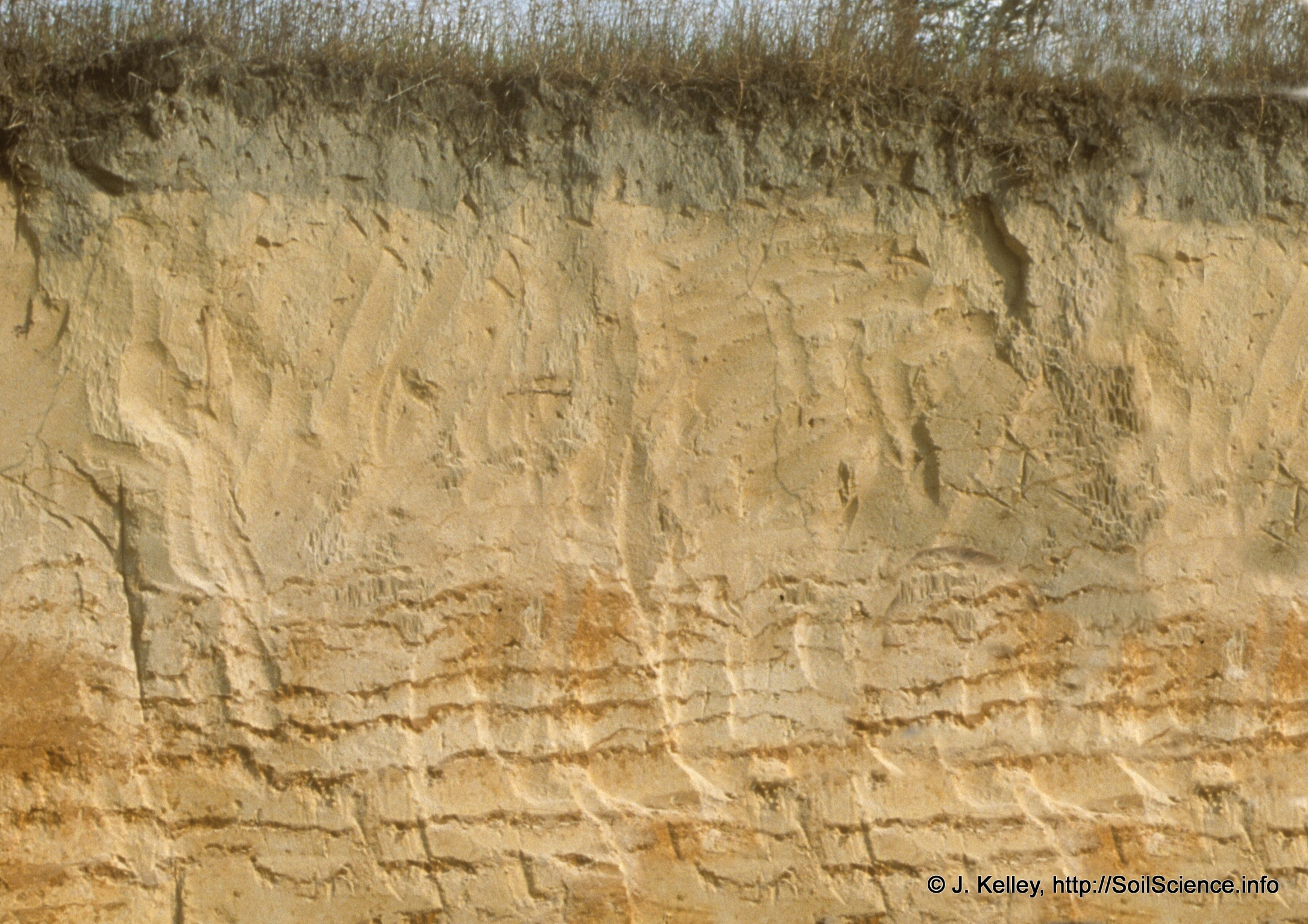 (from author) "Lamella form in soils as clay is translocated downward through sandy soils."